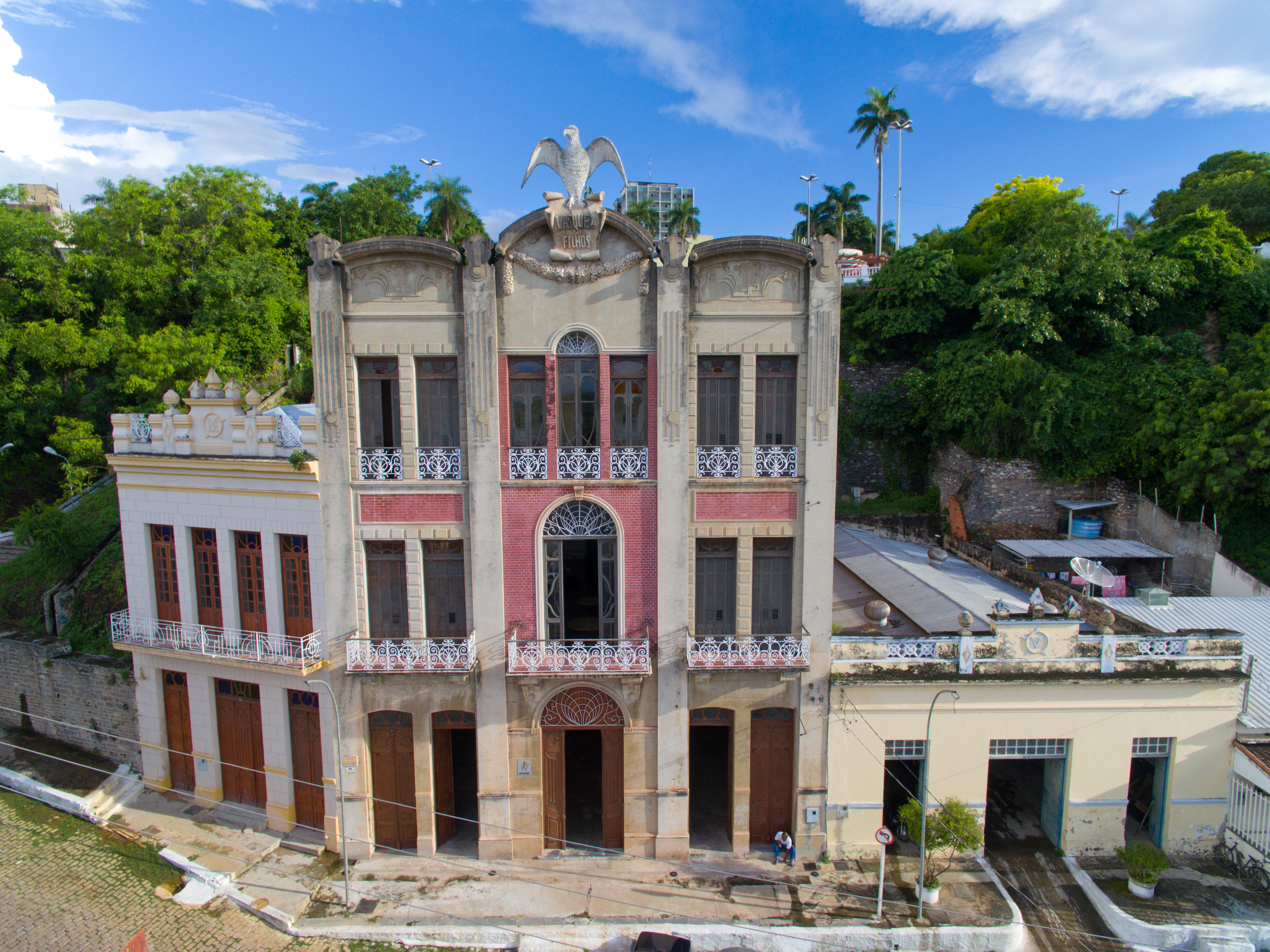 The historic Vasquez & Filhos building located in the Porto Geral, Corumbá, Mato Grosso do Sul, Brazil. It was constructed in 1909 by the Italian architect, Martino Santa Lucci.